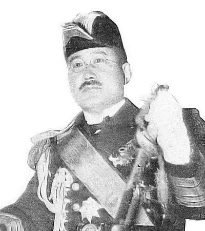 Admiral Hajime Matsushita of the Imperial Japanese Navy